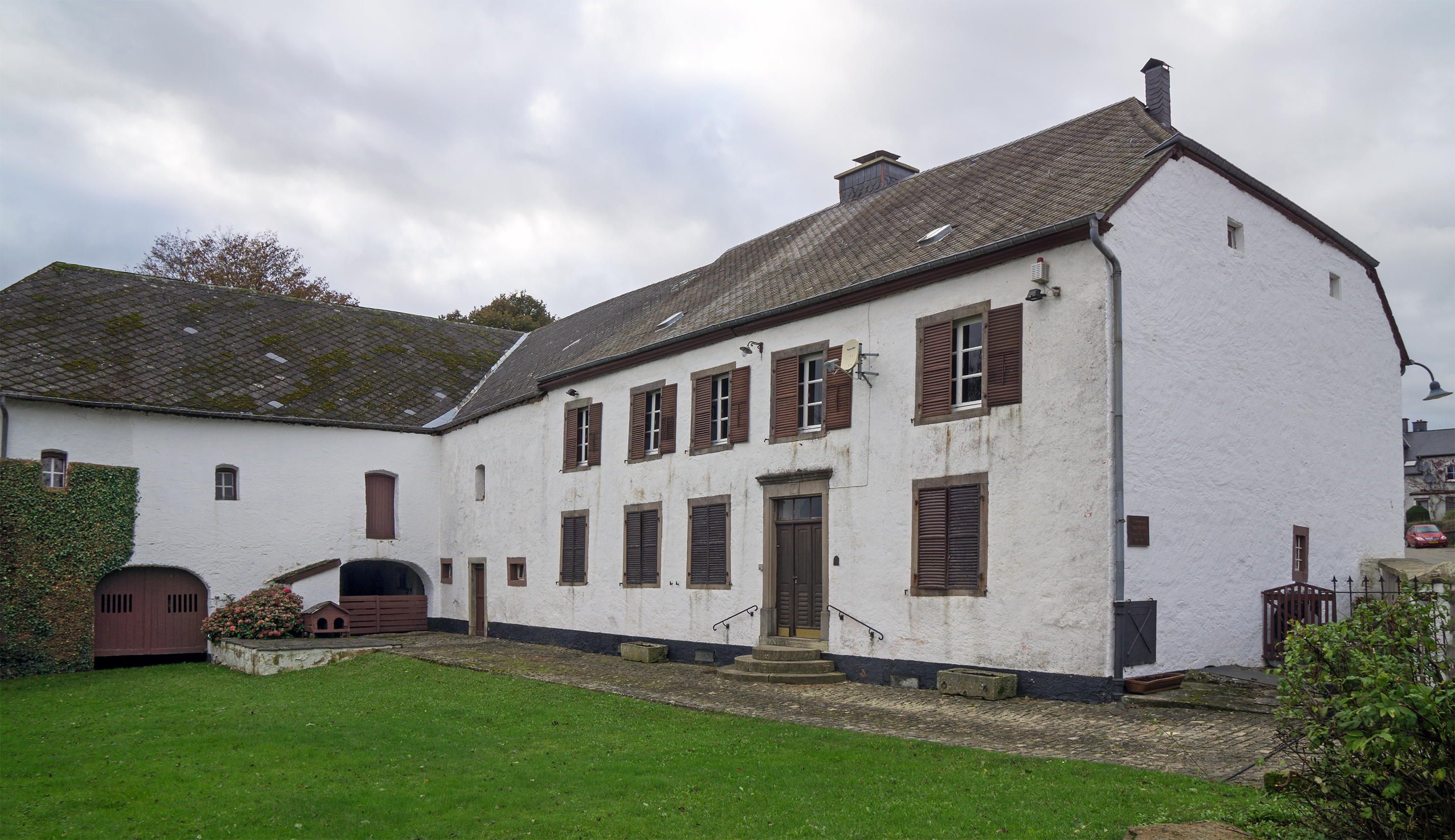 Farm in Weicherdange, house 25